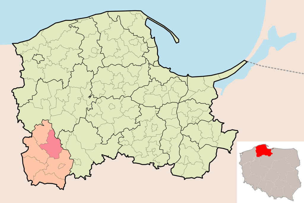 Locator map for communes (gmina) in pomorskie, with powiat highlighted Map - PL - powiat czluchowski - Przechlewo.PNG